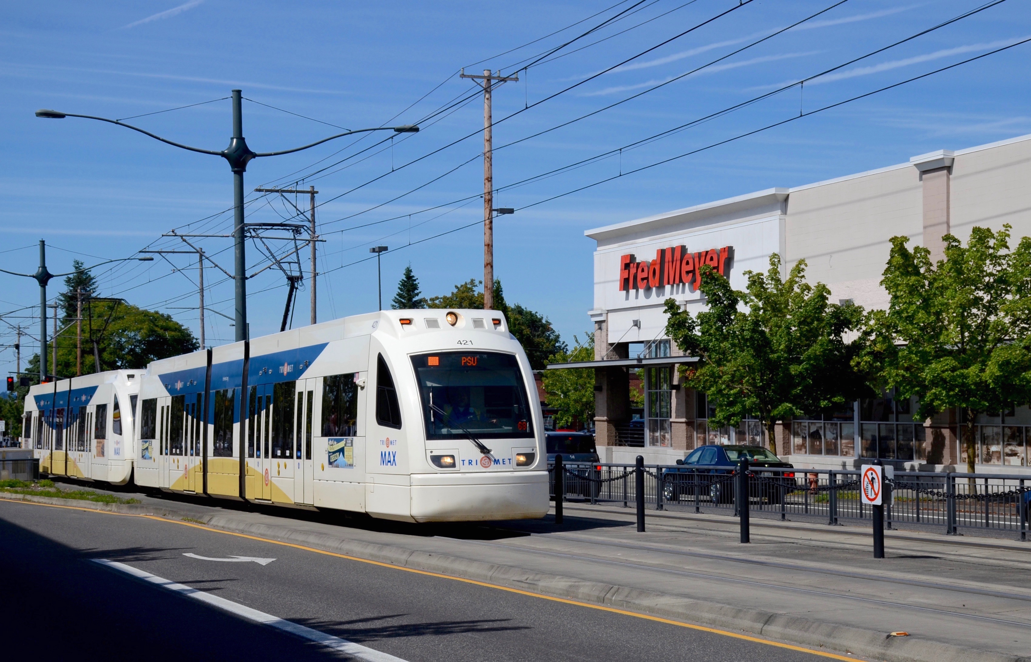 A MAX Yellow Line train southbound on N. Interstate Avenue (Oregon Highway 99W) just south of Lombard Street, passing the Fred Meyer store there. This train is composed of two TriMet "Type 4" light rail cars (specifically cars 421 + 418), which are 2009-built Siemens S70s. The Yellow Line opened in 2004.